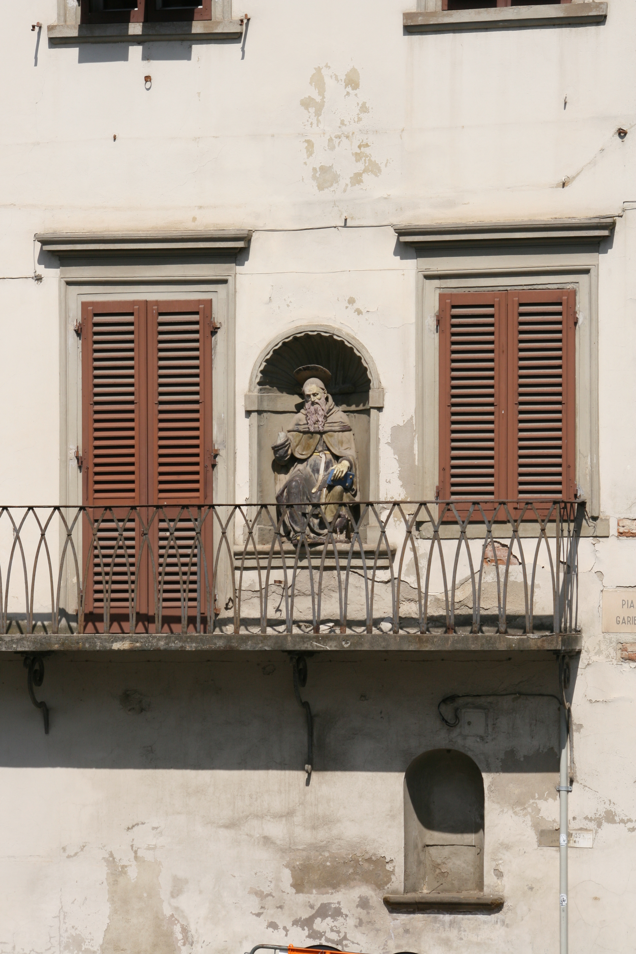 St. Anthony statue